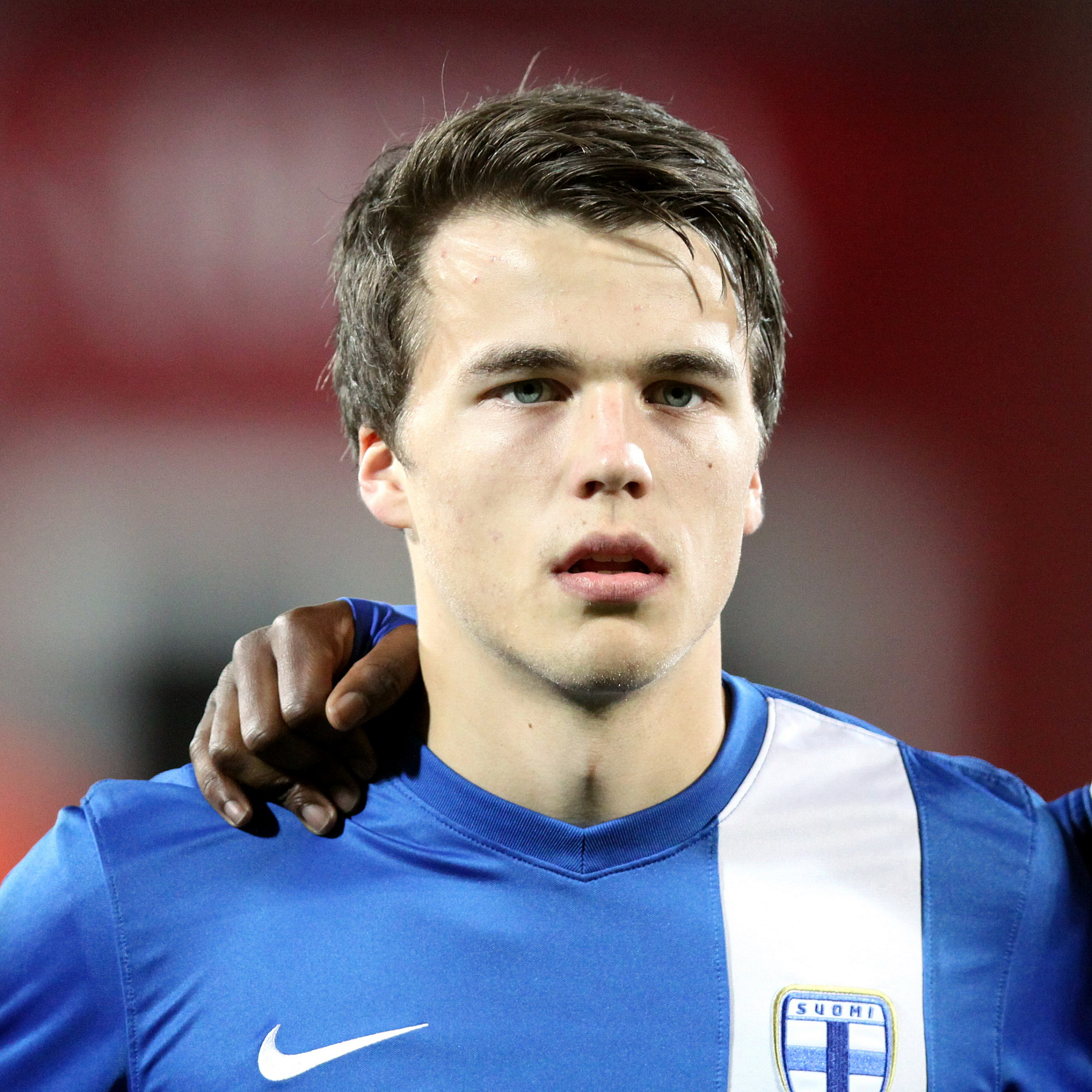 2017 UEFA European Under-21 Championship qualification – Austria U-21 (red shirts) vs. :en:Finland national under-21 football team |Finnland U-21 (blue shirts) 2-0 (0-0) – 2015-11-13 in Vienna, Austria Arena – The photo shows Simon Skrabb.